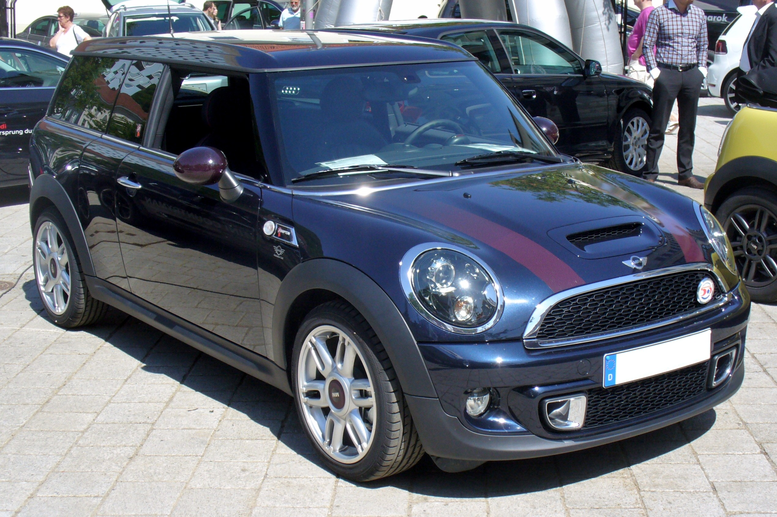 Mini Cooper S Hampton Facelift